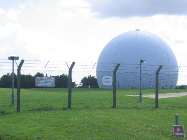 Early warning station, RAF Trimingham, near Mundesley, Norfolk. Further information and history available at Subterranea Britannica